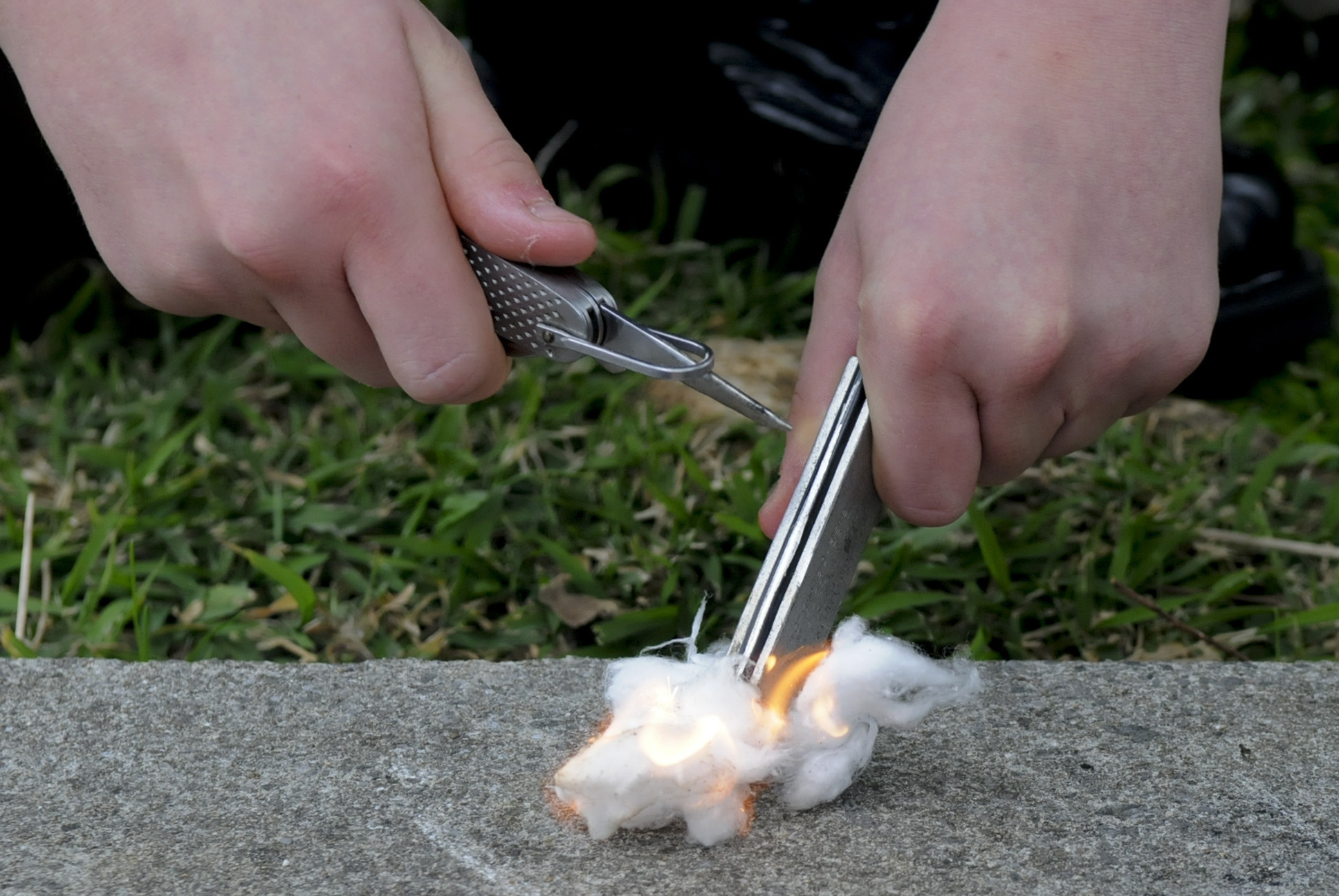 Cadets in the Civil Air Patrol learn survival techniques by a survival, evasion, resistance and escape specialist during the 2011 Okinawa Squadron Civil Air Patrol Encampment, including how to start a fire during harsh situations at Kadena Air Base, Japan, Dec. 29, 2011. Leadership skills and looks into different military programs are goals of the CAP for their cadets. (U.S. Air Force photo by Airman 1st Class Tara A. Williamson/Released)